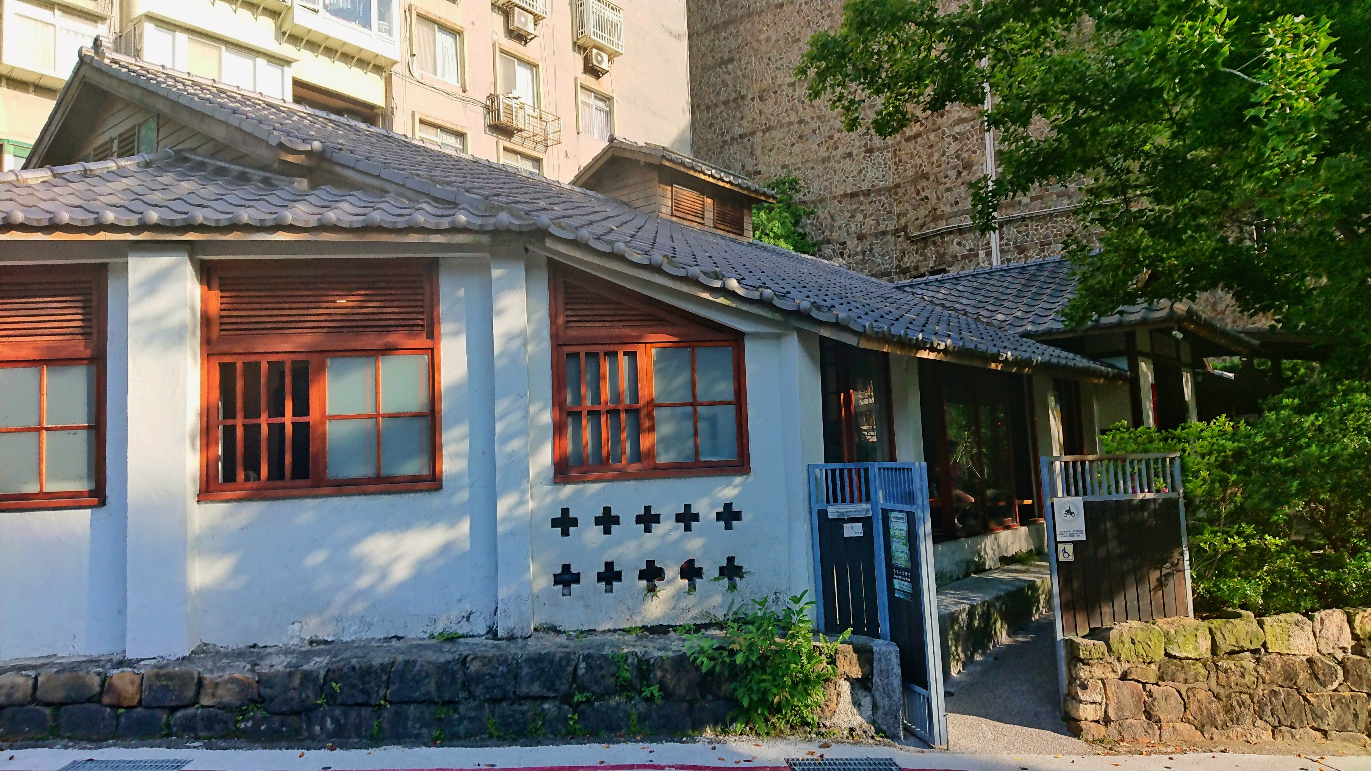 Takinoyu was founded by Japanese during Japanese Taiwan era, and it is one of the most well-preserved Japanese Onsen in Beitou.